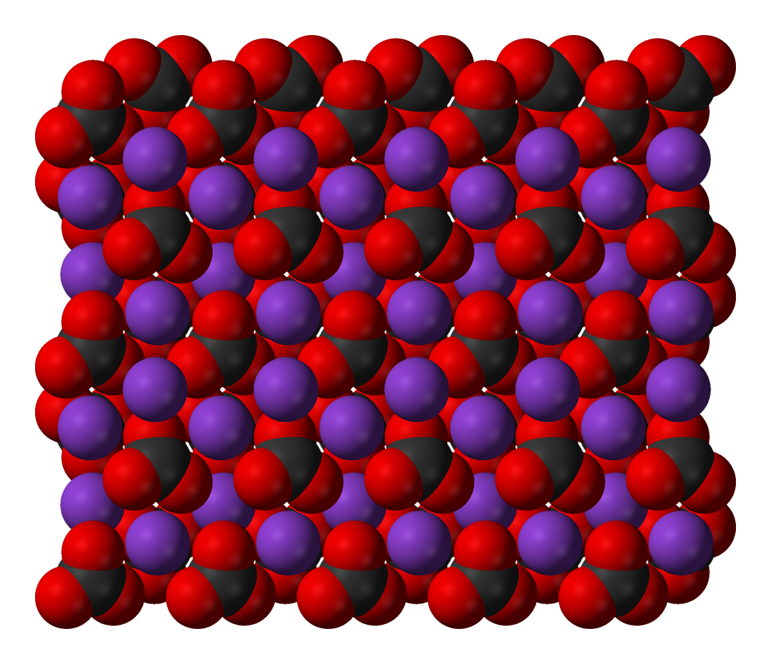 Space-filling model of part of the crystal structure of potassium carbonate, K2CO3. X-ray crystallographic data from Y. Idemoto, J. W. Richardson Jr., N. Koura, S. Kohara, C.-K. Loong (March 1998). "Crystal structure of (LixK1−x)2CO3 (x = 0, 0.43, 0.5, 0.62, 1) by neutron powder diffraction analysis". J. Phys. Chem. Solids 59 (3): 363-376. Model constructed in CrystalMaker 8.1. Image generated in Accelrys DS Visualizer.